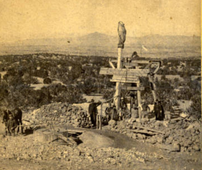 A group of miners in the Cerrillos Hills during the late 1800s.